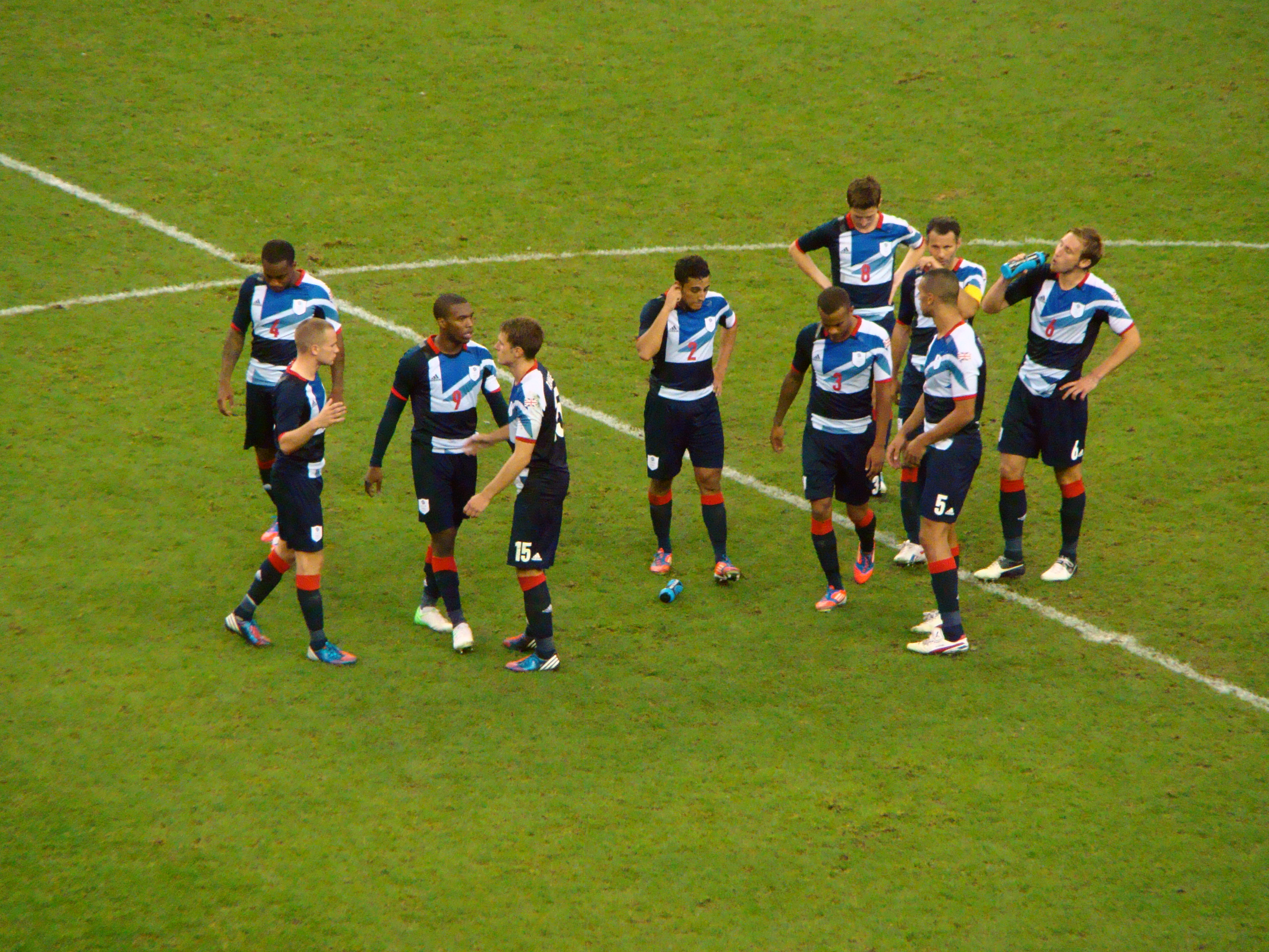 04/08/12 Great Britain v South Korea, Olympic Football, Millennium Stadium, Cardiff, Wales